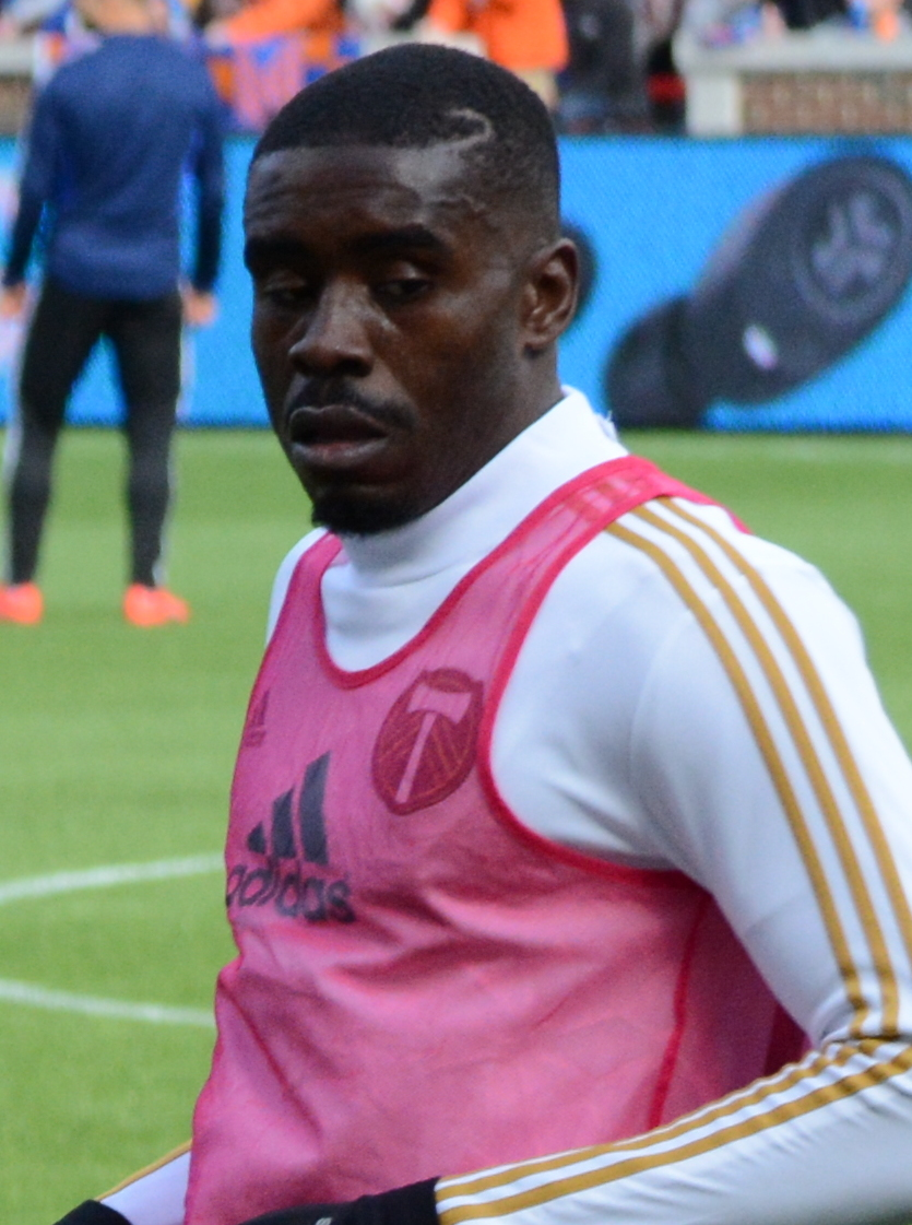 Taken during FC Cincinnati's Major League Soccer regular season home opener match against Portland Timbers at Nippert Stadium in Cincinnati, USA on March 17, 2019.